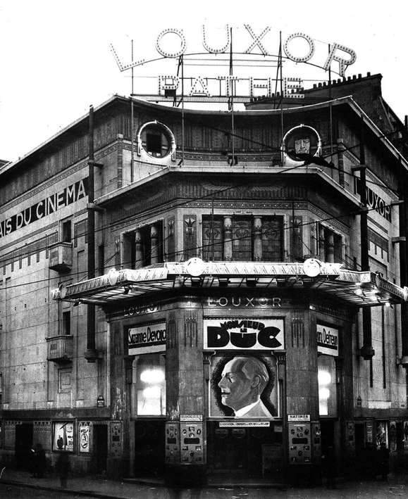 Louxor, a french movie theater, showing the film Monsieur le duc (1931).